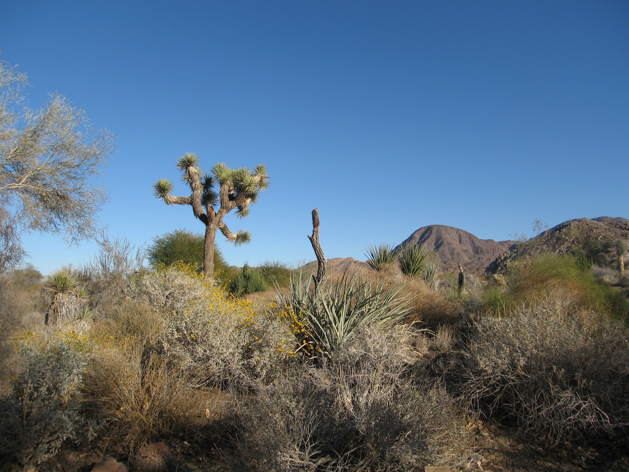 Typical plant life and scenery offered by the Living Desert.